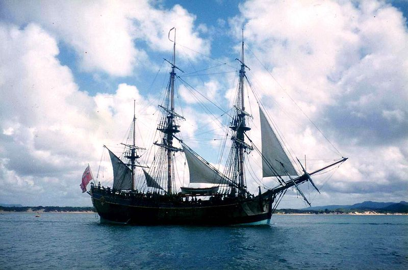 Endeavour replica in Cooktown harbour.